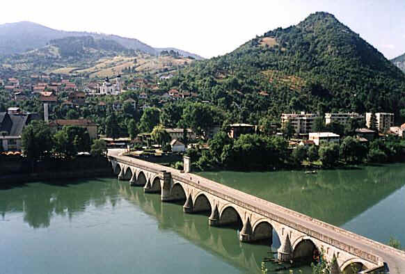 The Bridge Over Drina (BiH)